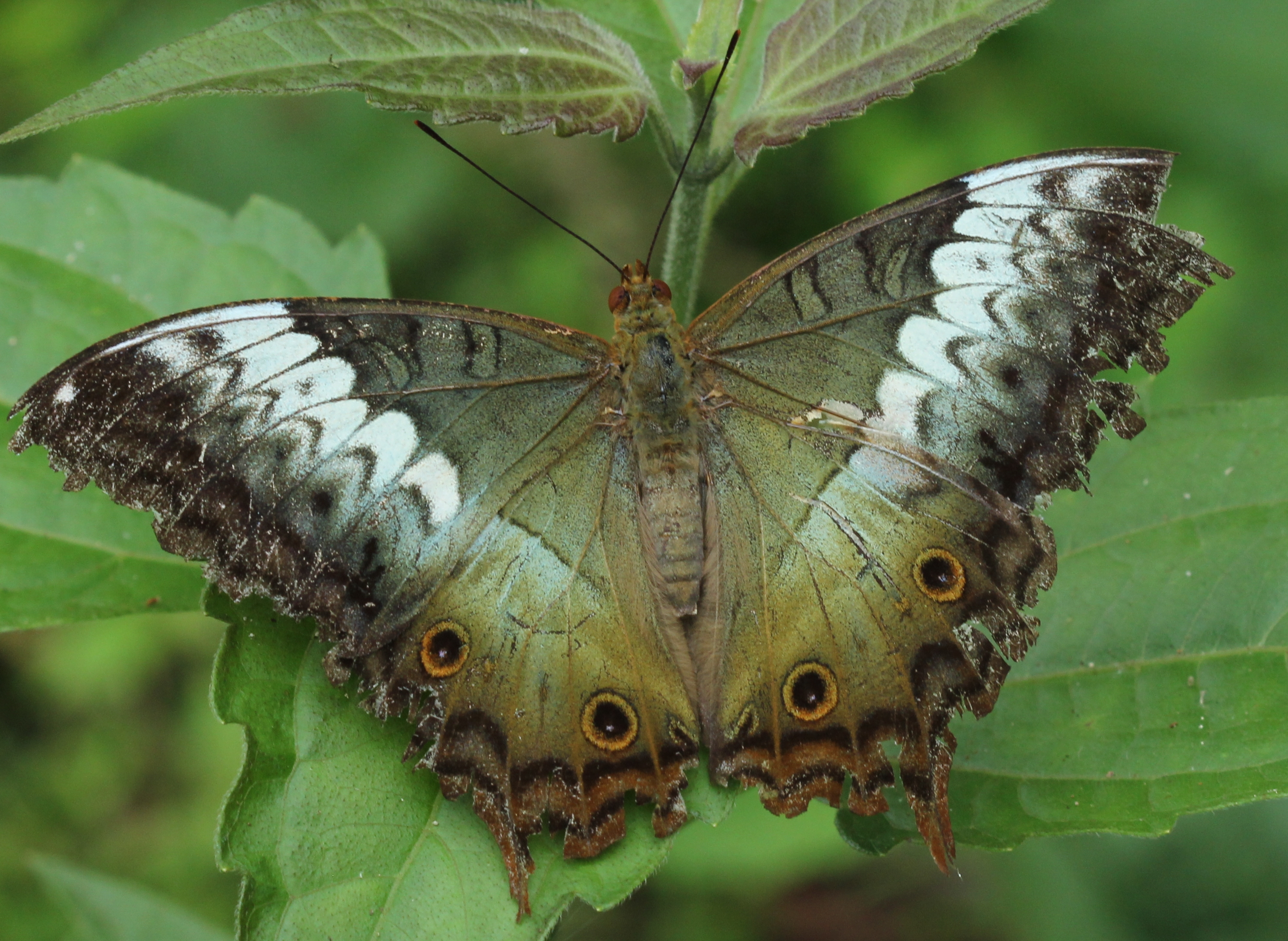 cruiser female from dandeli